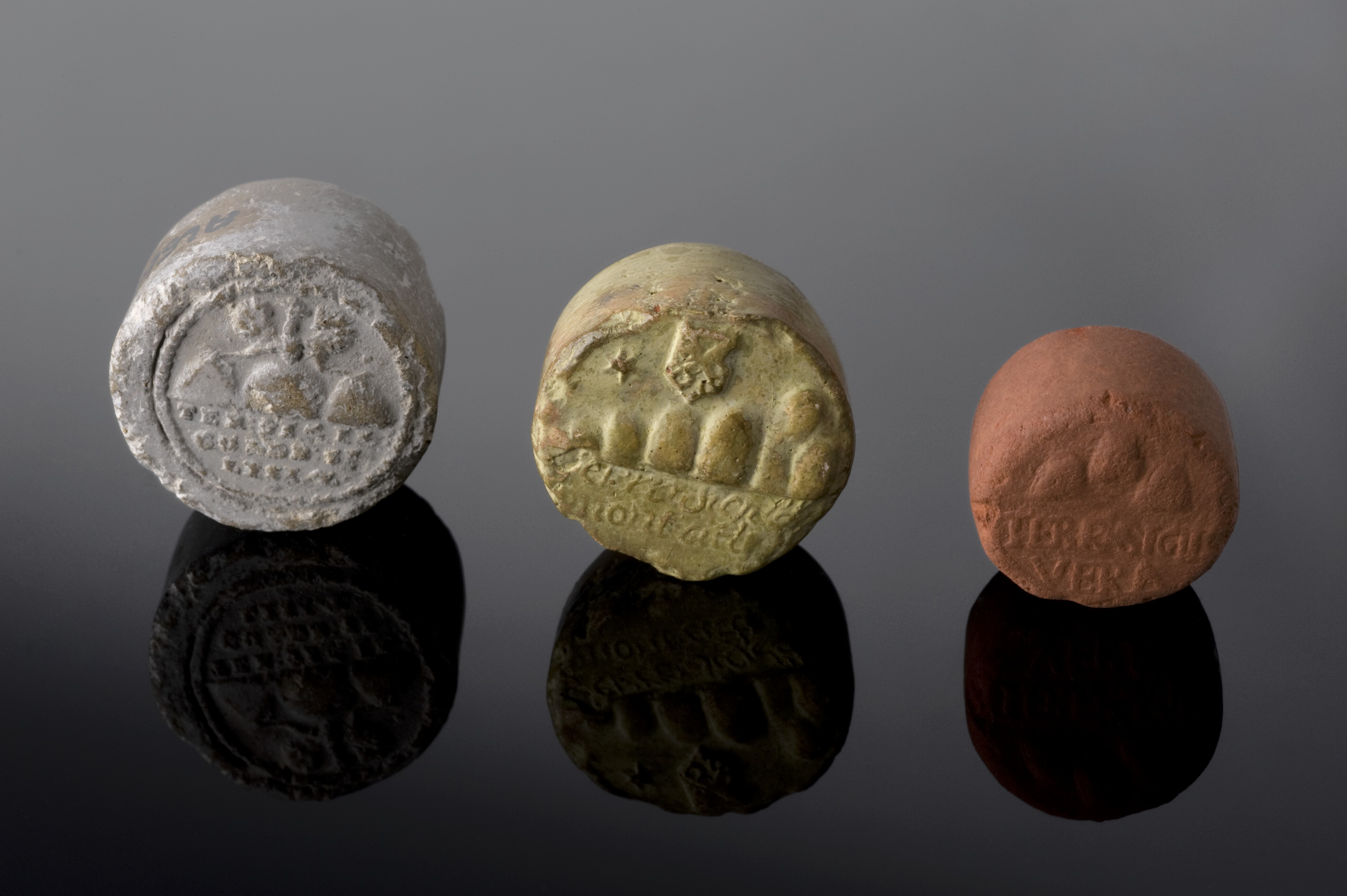 Terra sigillata, or “sealed earth”, was a clay-like soil believed to have medicinal qualities which was first used on the Greek island of Lemnos in around 500 BCE. It was usually prepared into cakes which were stamped with a seal of authenticity and then dried. The clay was crushed into a powder and taken with liquids or made into a paste and smeared on the body. Terra sigillata was believed to fight against a number of diseases including plague and was highly sought after during epidemics. An increased demand needed an increased supply and sources were found in Hungary, France, Germany, Malta, Sienna and Silesia. It is shown here with two other examples (A656687 and A656695). maker: Unknown maker Place made: Goldberg, Schwerin, Mecklenburg-Vorpommern, Germany Wellcome Images Keywords: Epidemics; Plague; terra sigillata; epidemic